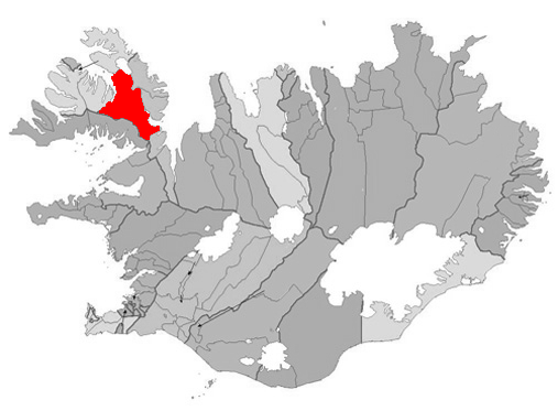 Hólmavíkurhreppur, Icelandic municipality Own work based on Image:Municipalities_of_Iceland.png using The Gimp